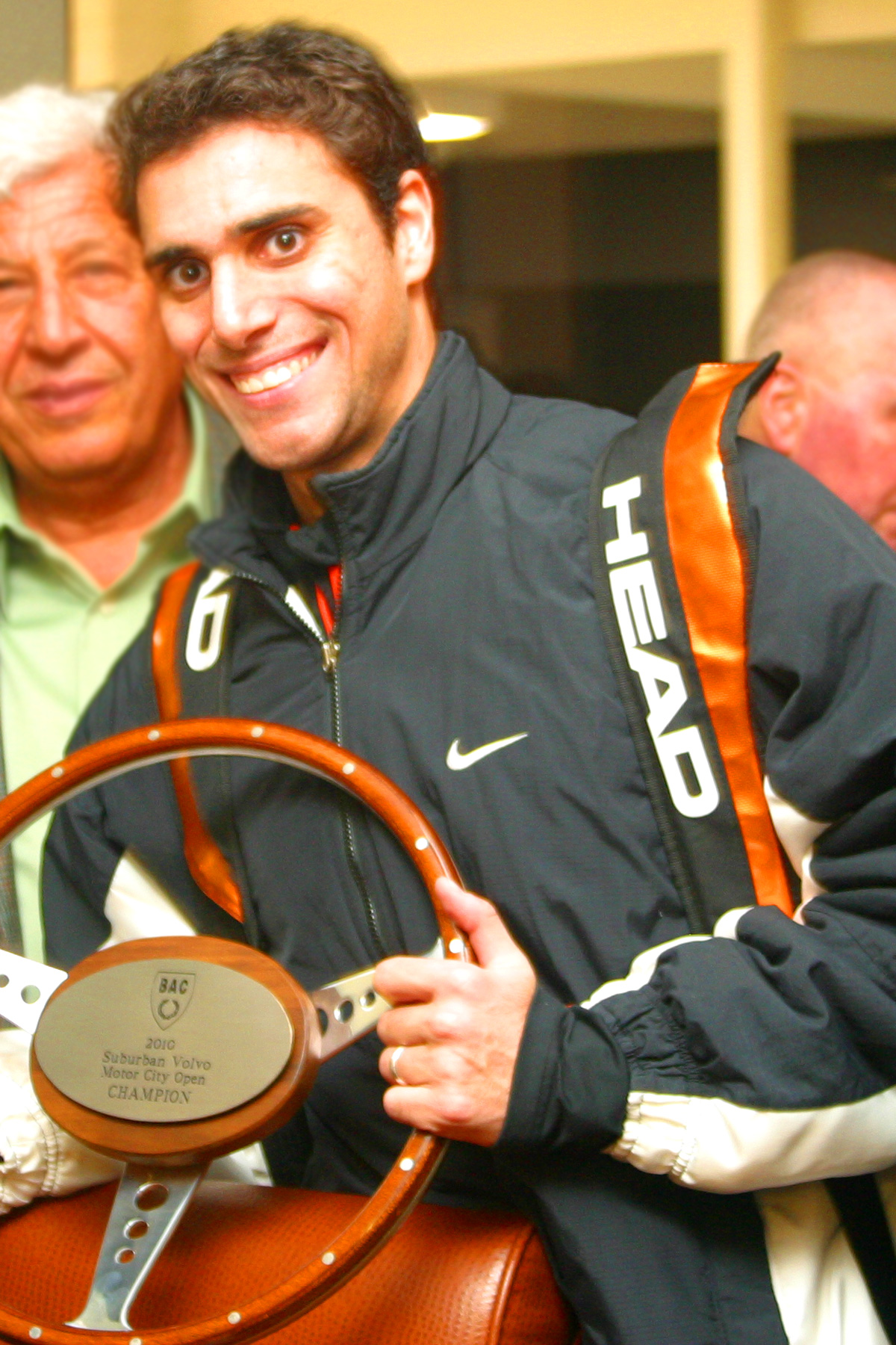 Karim Darwish at the Birmingham Athletic Club in Bloomfied Hills, Michigan after winning the Motor City Open.